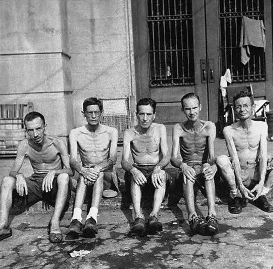 World War II. Emaciated internees at Santo Tomas Internment Center, Manila. Feb 1945